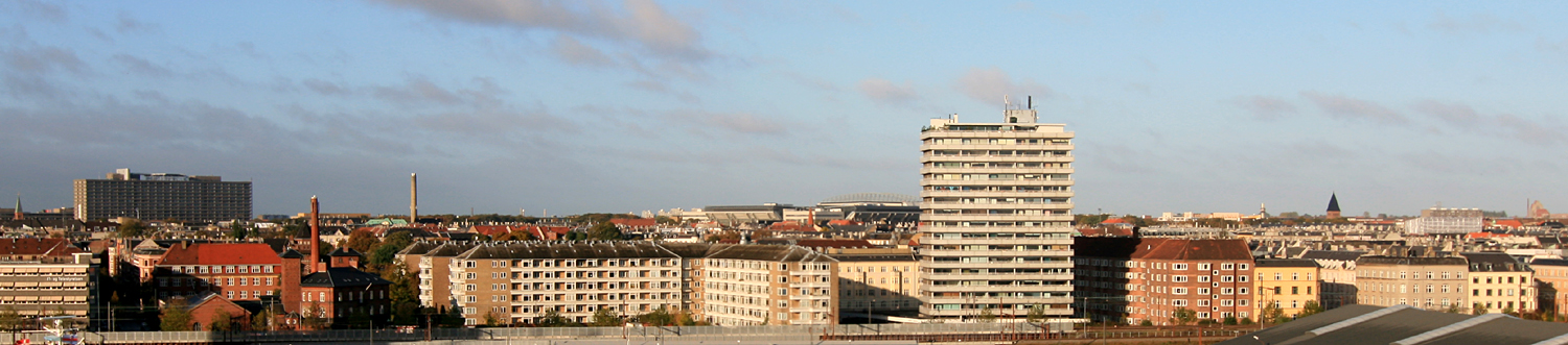 Østerbro, Copenhagen, seen from the harbour.